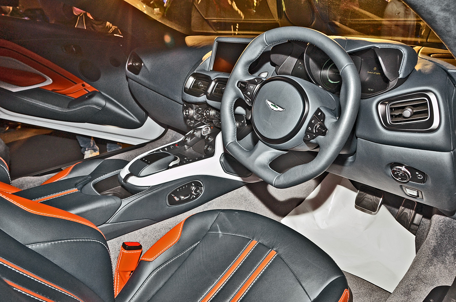 Vantage (prototype) in Hong Kong; RHD interior